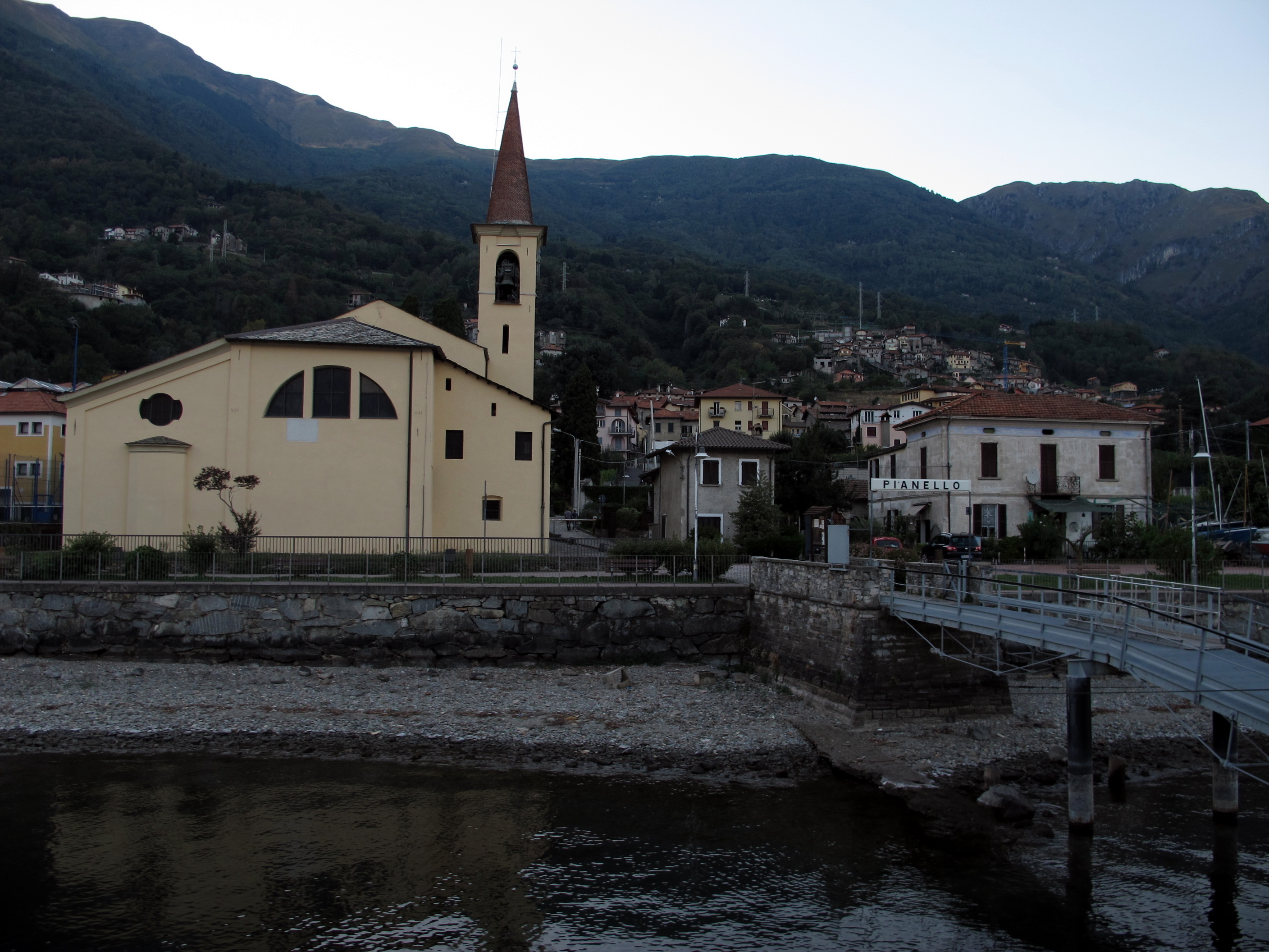 Italy, Lombardy, Lake Como, Pianello del Lario, (Church) Chiesa di S. Martino, Pier